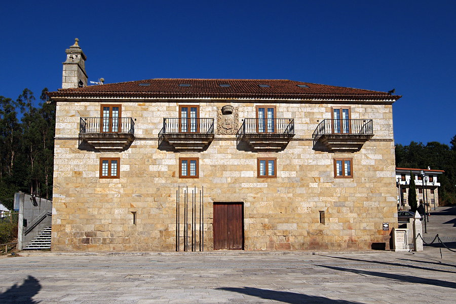 Pazo (palace) of Mos